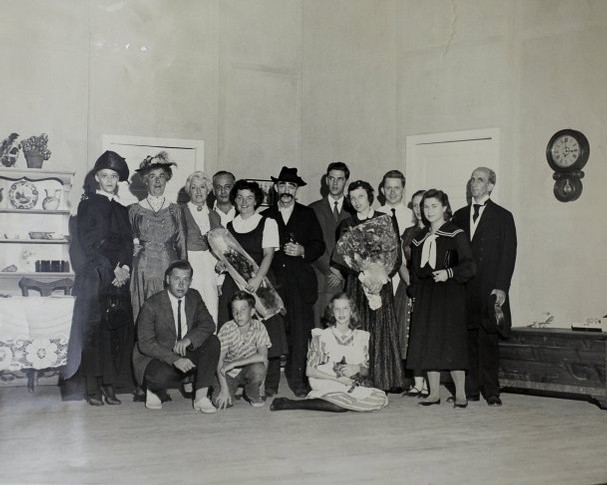 Photo taken of the first cast of the Naples Players inaugural production of "I Remember Mama". March 20, 1953.